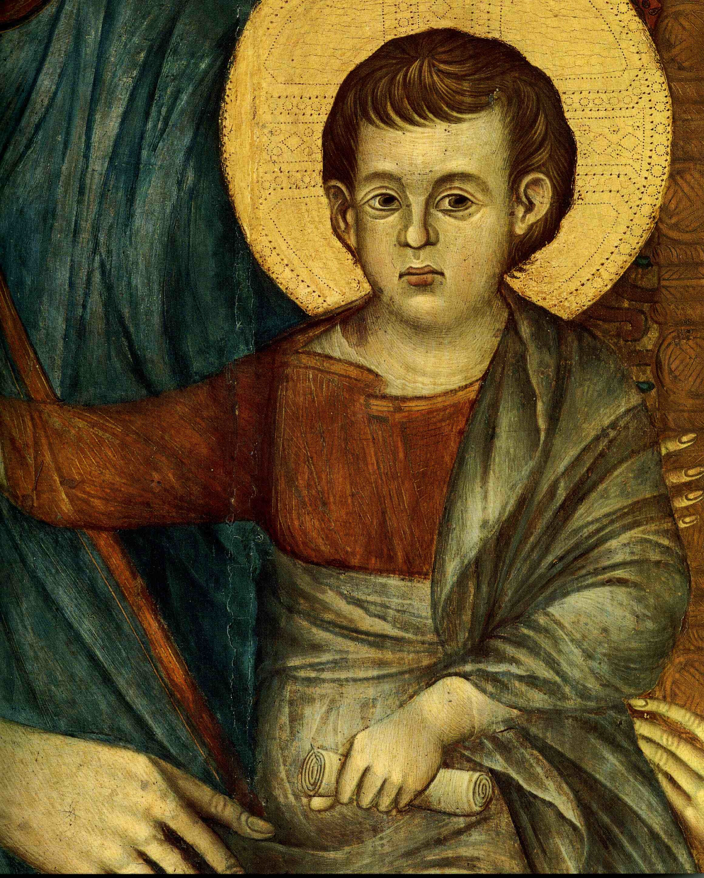 Maestà of the Louvre, detail of the Child